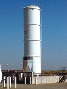 A 15,000 gallon stationary LNG storage tank, Harris Ranch station USA, Liquefied natural gas